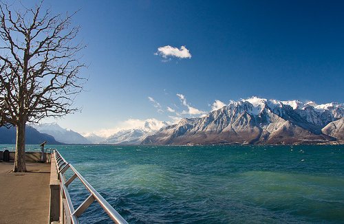 Lake Geneva, Vevey